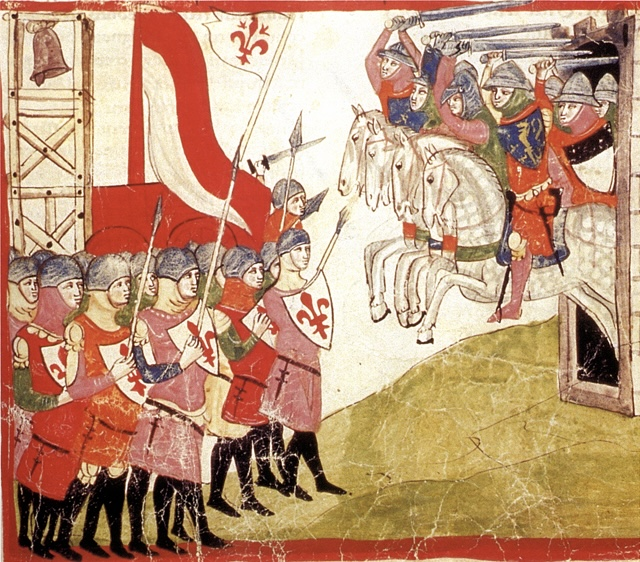 Battle of Montaperti, workshop of Pacino da Bonaguida Česky: Bitva u Montaperti